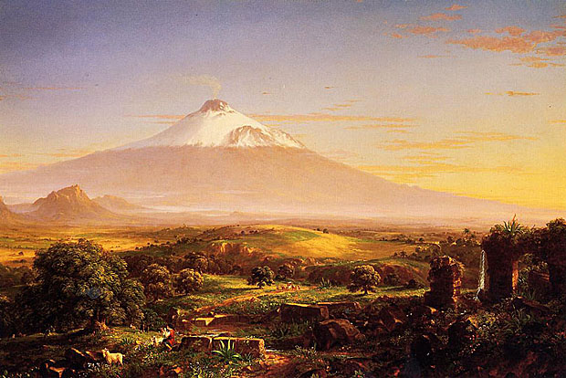 Mount Etna, active volcano on the east coast of Sicily.